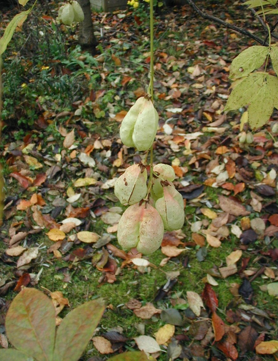 Staphylea pinnata: Fruits. Photo: Sten Porse